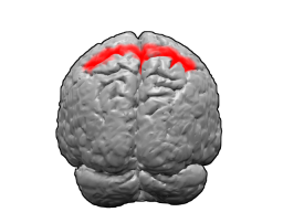 Brodmann areas 5 BA5 is in the superior parietal lobe. This is a rear view, looking down on back of the brain The brain's surface is extracted from structural MRI data (Wellcome Dept. Imaging Neuroscience, UCL, UK). The Brodmann Area data is based on information from the online Talairach demon (an electronic version of Talairach and Tournoux, 1988). These images were created using Blender and Matlab. reference:Talairach, J., and Tournoux, P. Co-Planar Stereotactic Atlas of the Human Brain., New York: Thieme, 1988.